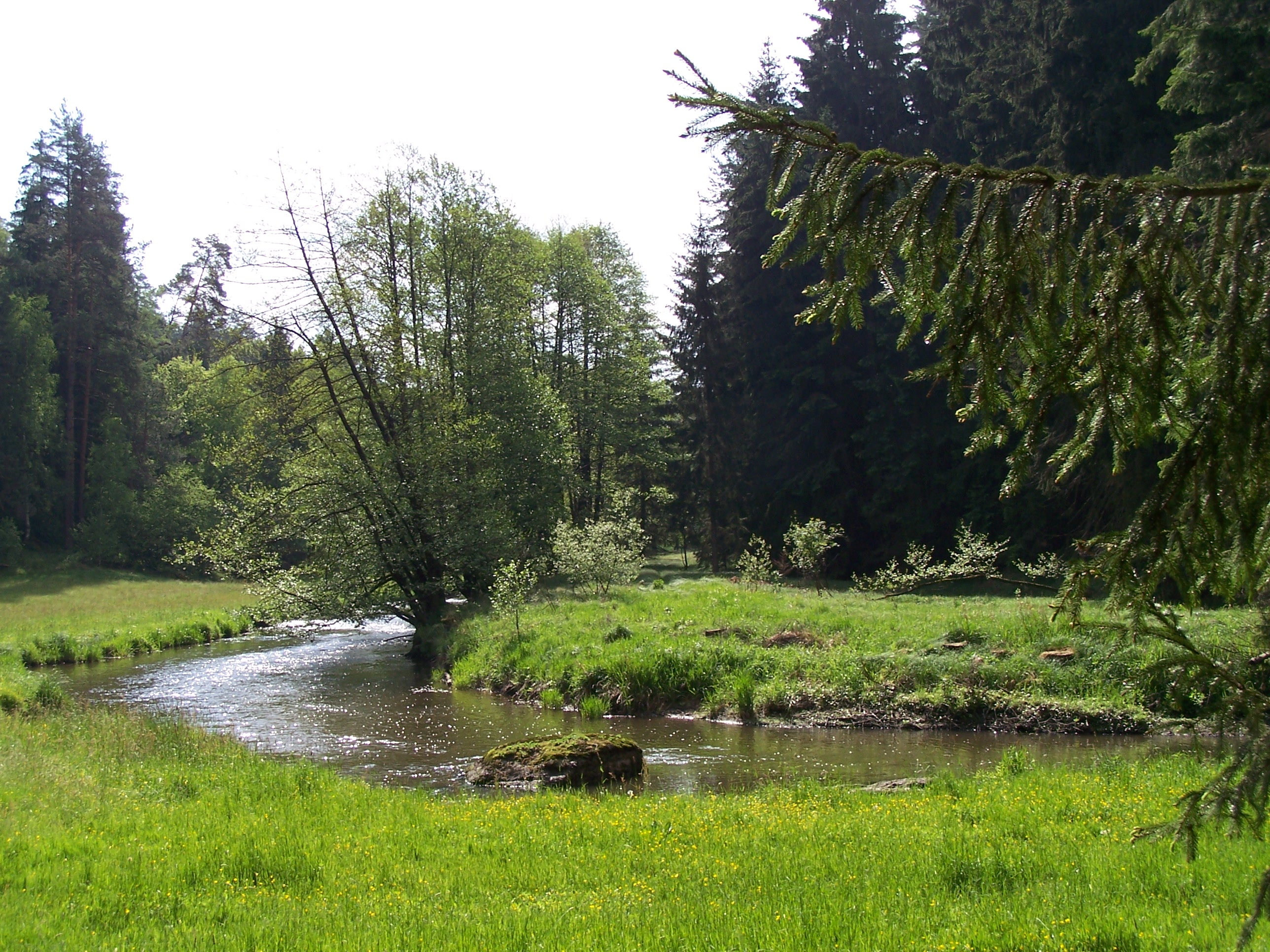 Waldnaab valley in May 2007